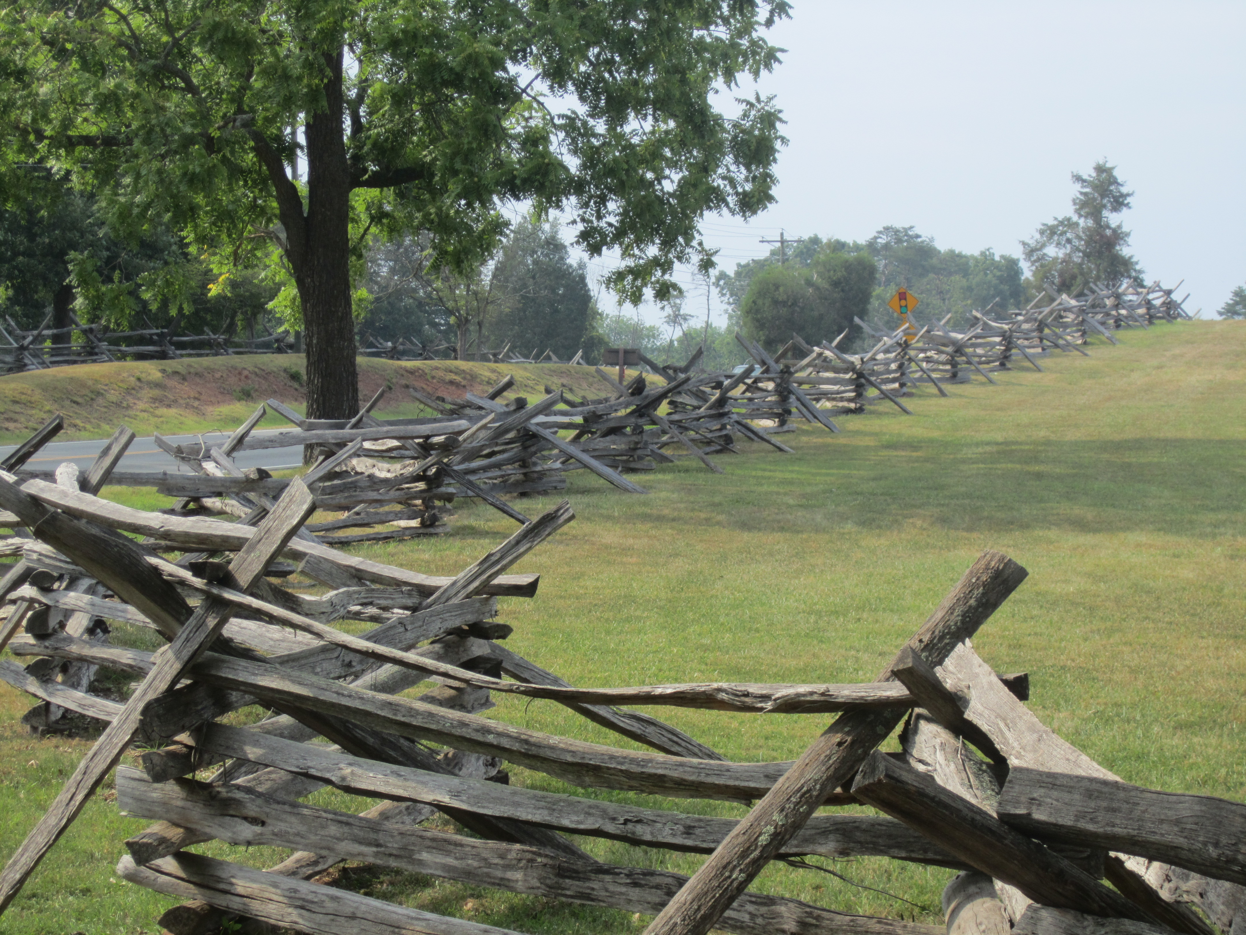 I took photo of fence surrounding Manassas Battlefield Park in Manassas, VA, using Canon camera.